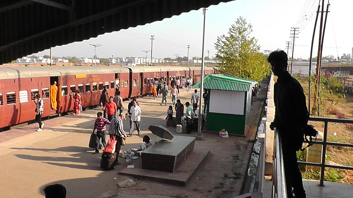 Express